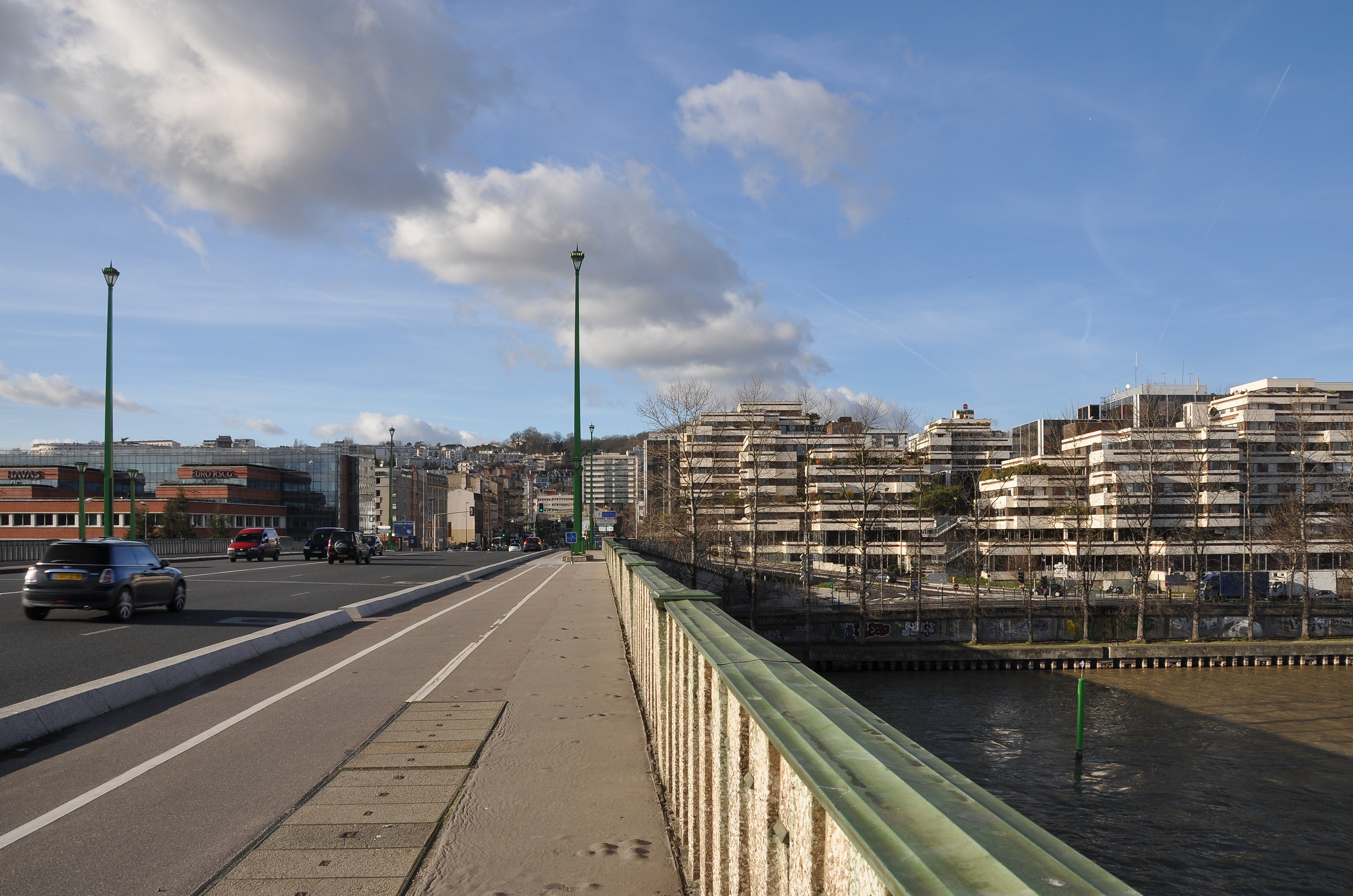 Suresnes, view from the bridge Pont de Suresnes, department of Hauts-de-Seine in France.